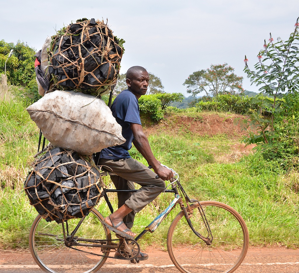 Uganda